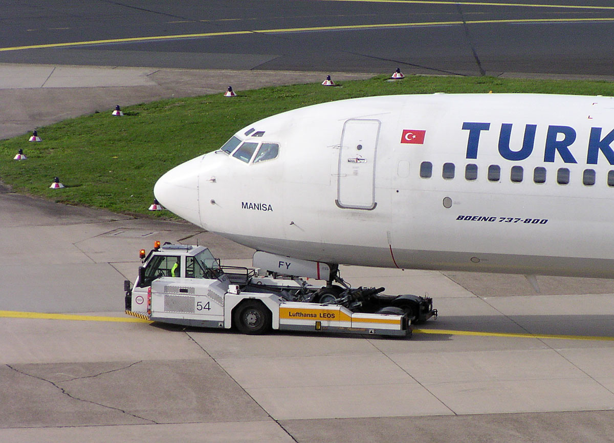 Towbarless aircraft tractor (Goldhofer AST-3) pushing back Turkish Airlines Boeing 737-800 TC-JFY in Düsseldorf (EDDL)